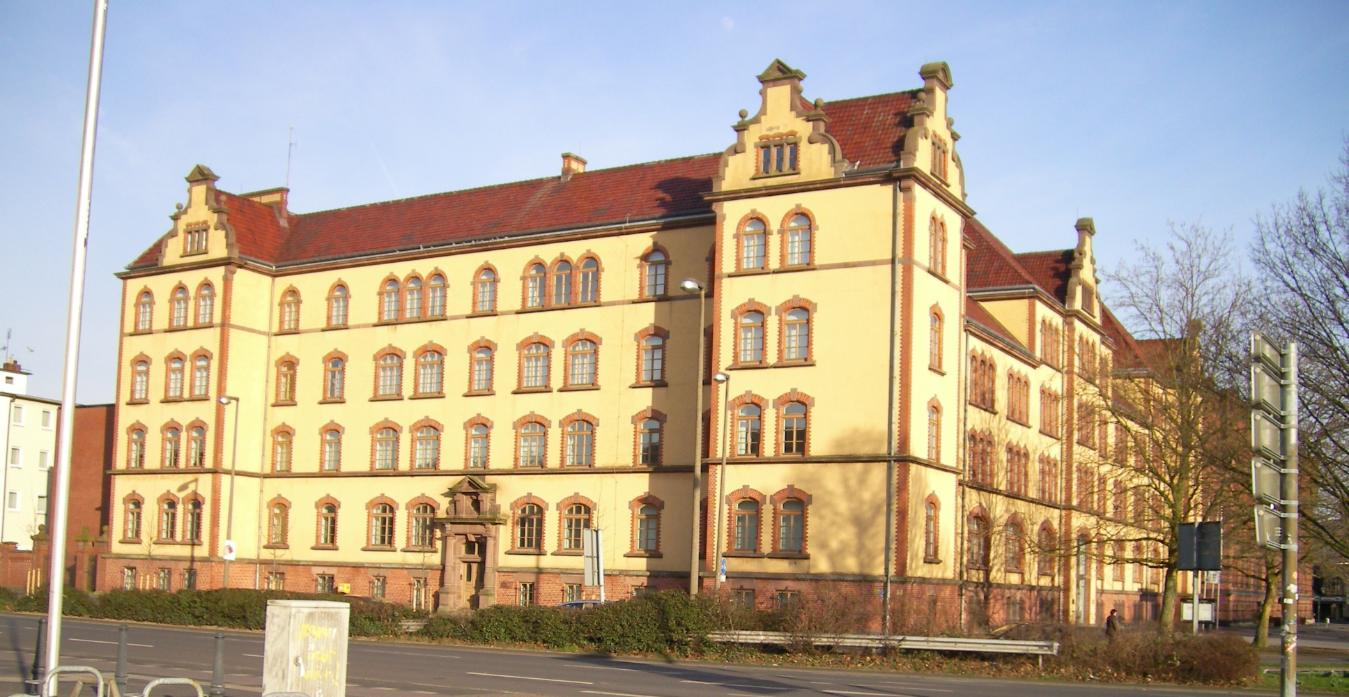 Building of Landesbibliothek Oldenburg library. Former an infantry barrack, built in Neo-Renaissance style 1900–1902, the architect is unknown.